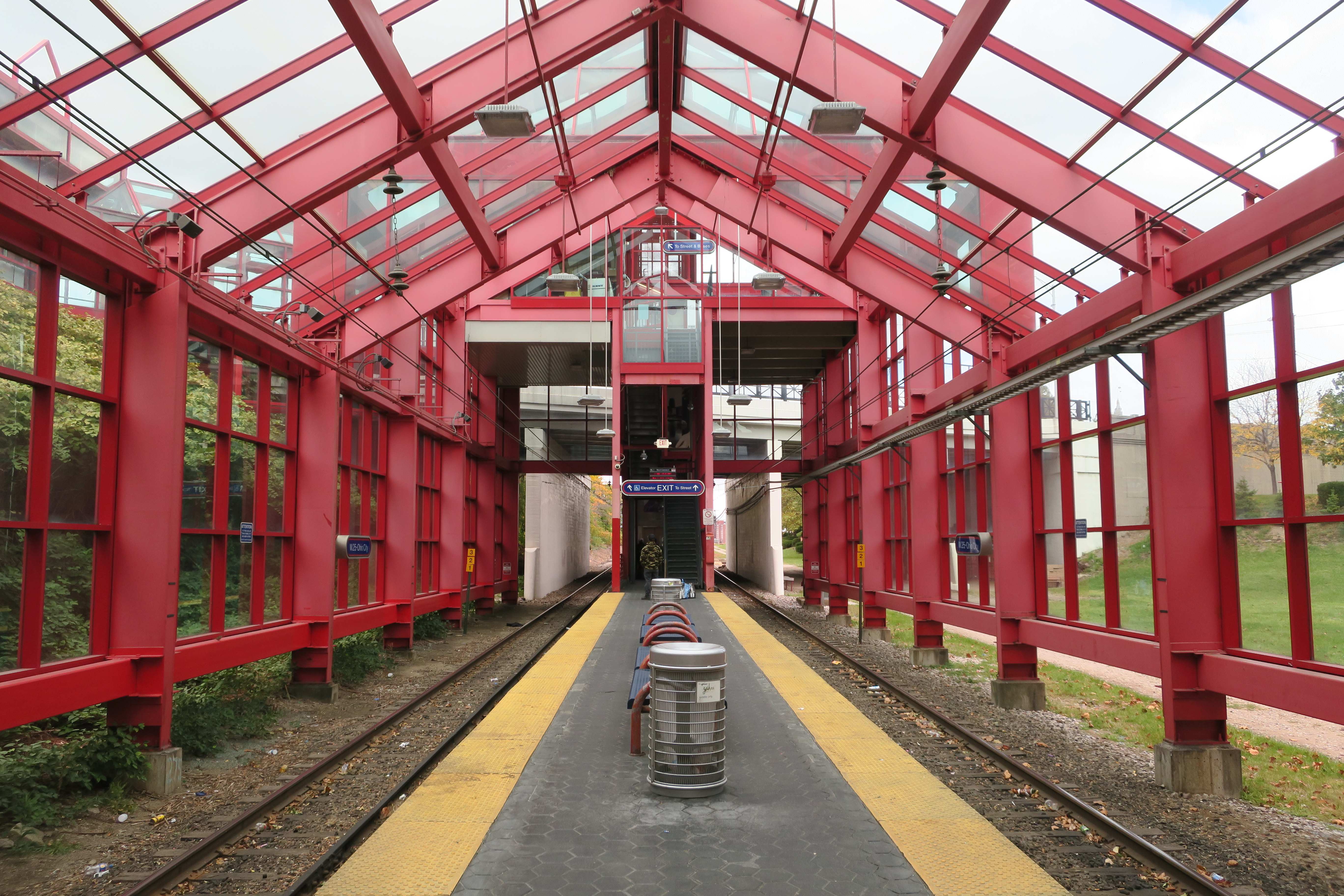 The Cleveland Red Line platform at West 25th – Ohio City, looking north.